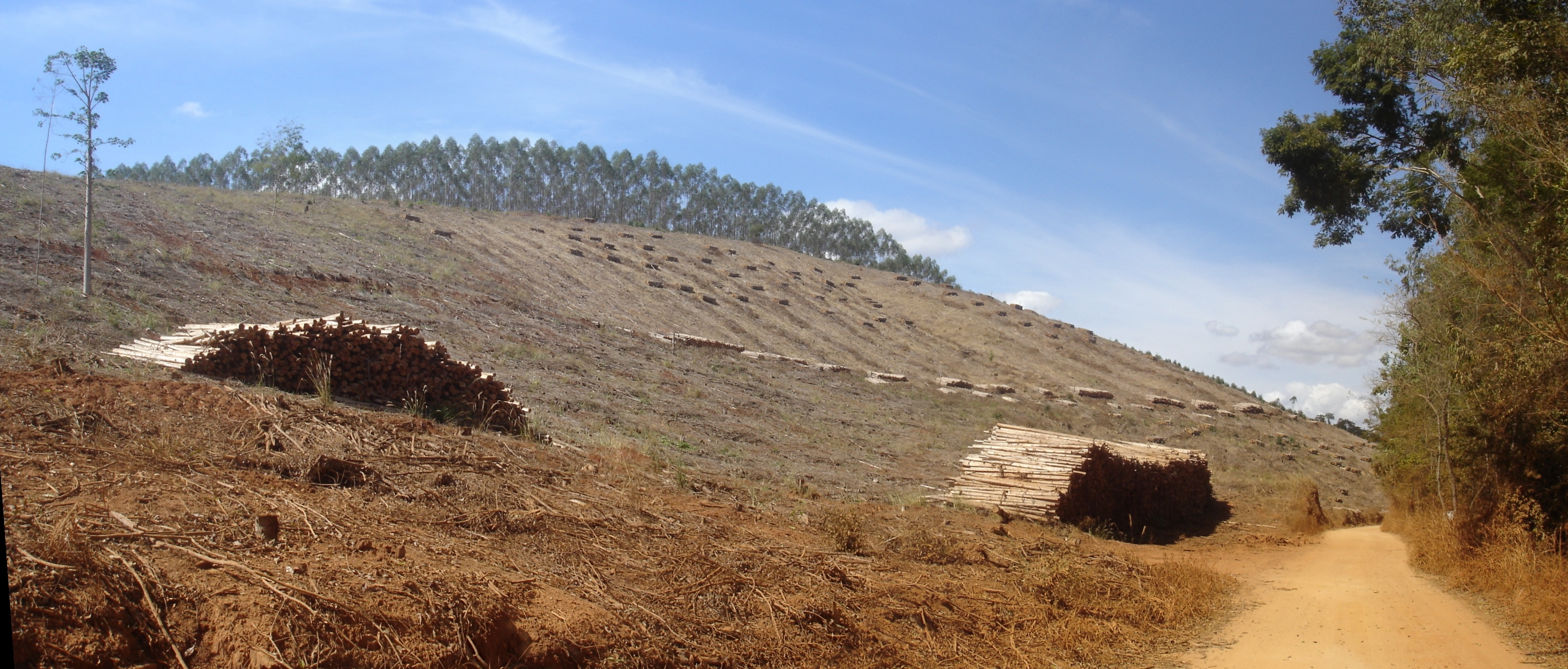 Felling of eucalyptus in Pingo-d'Água, Minas Gerais, Brazil.